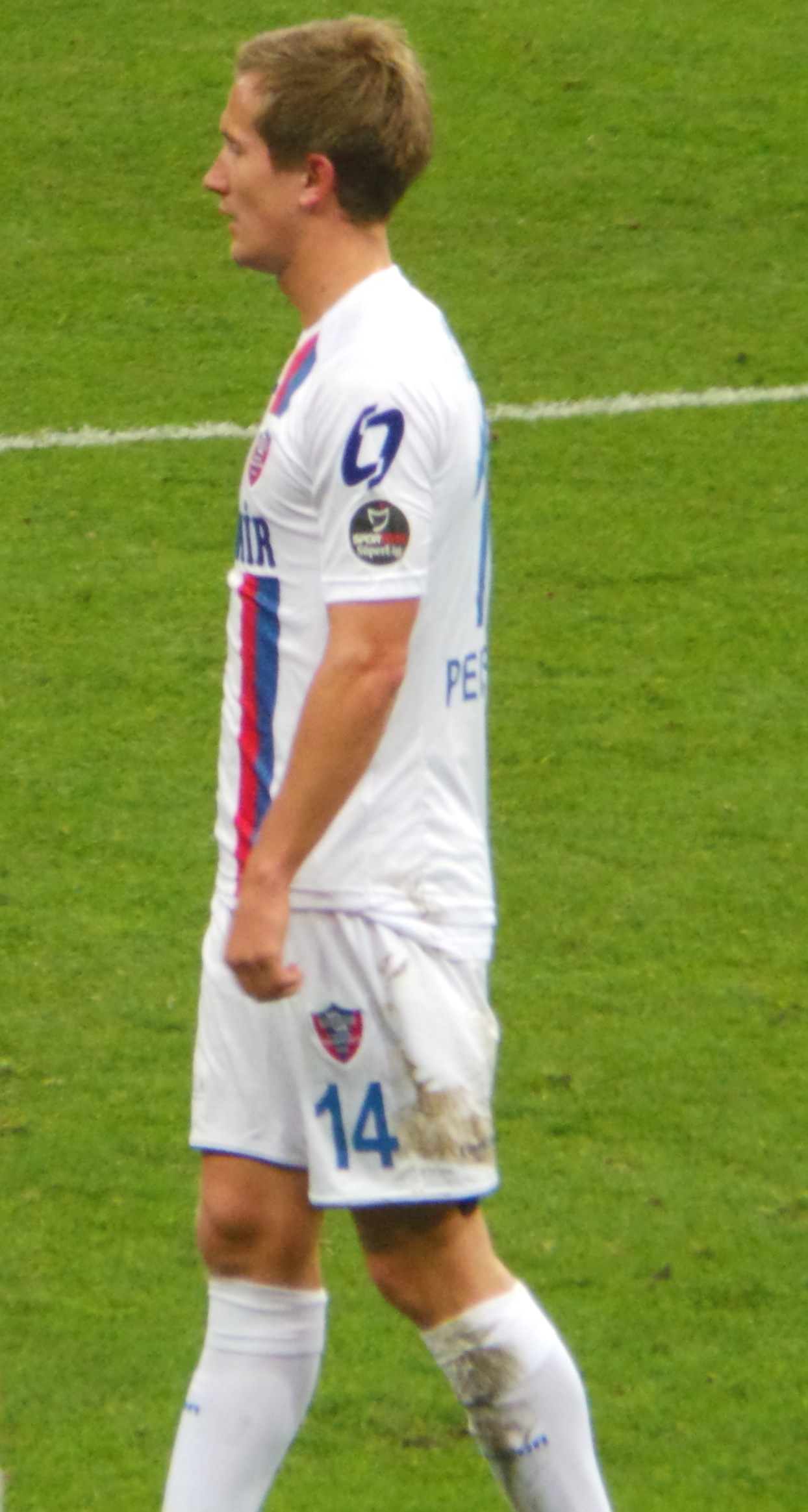 Morten Gamst Pedersen against GS